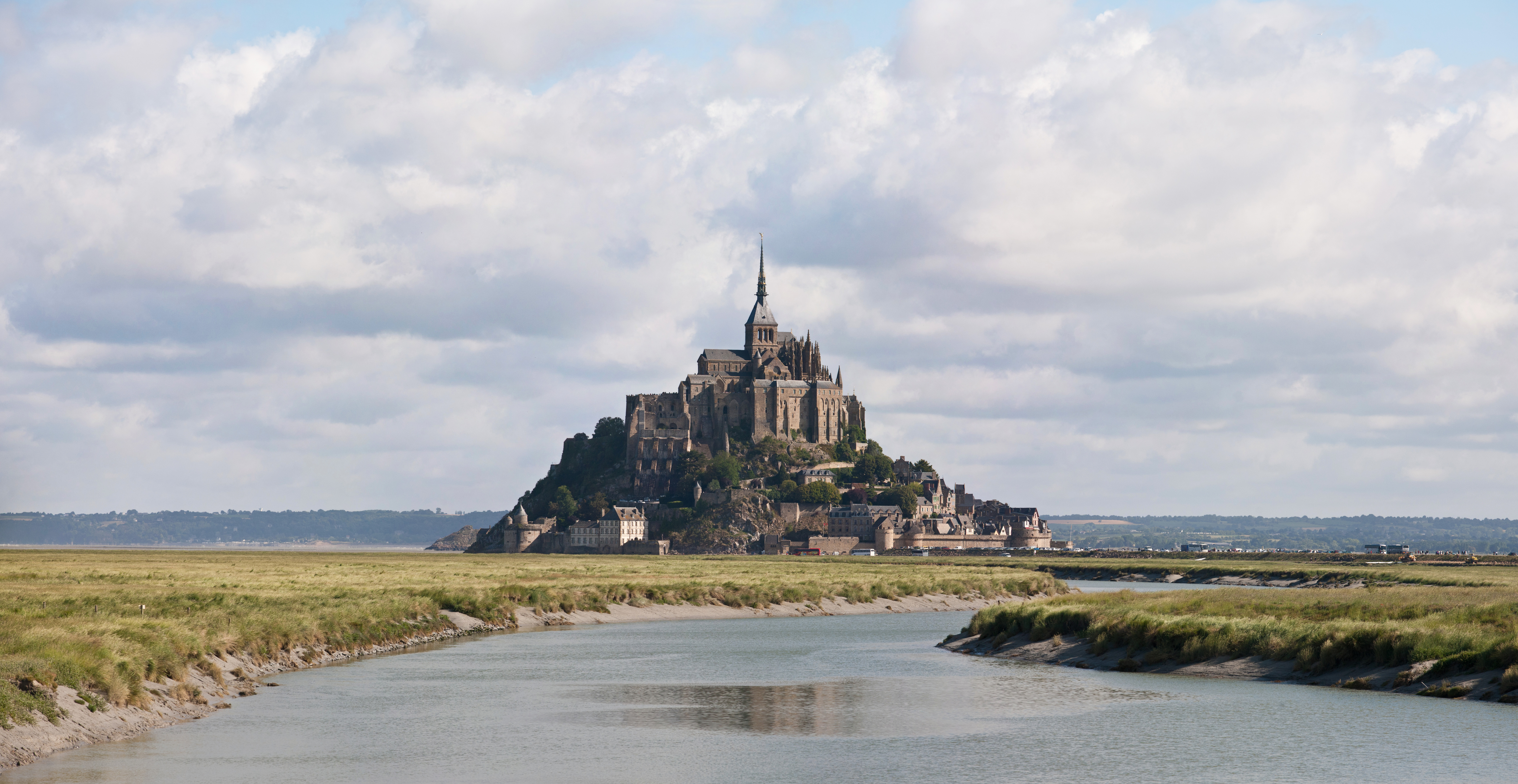 Mont St Michel as viewed along the Couesnon River in Britany, France.